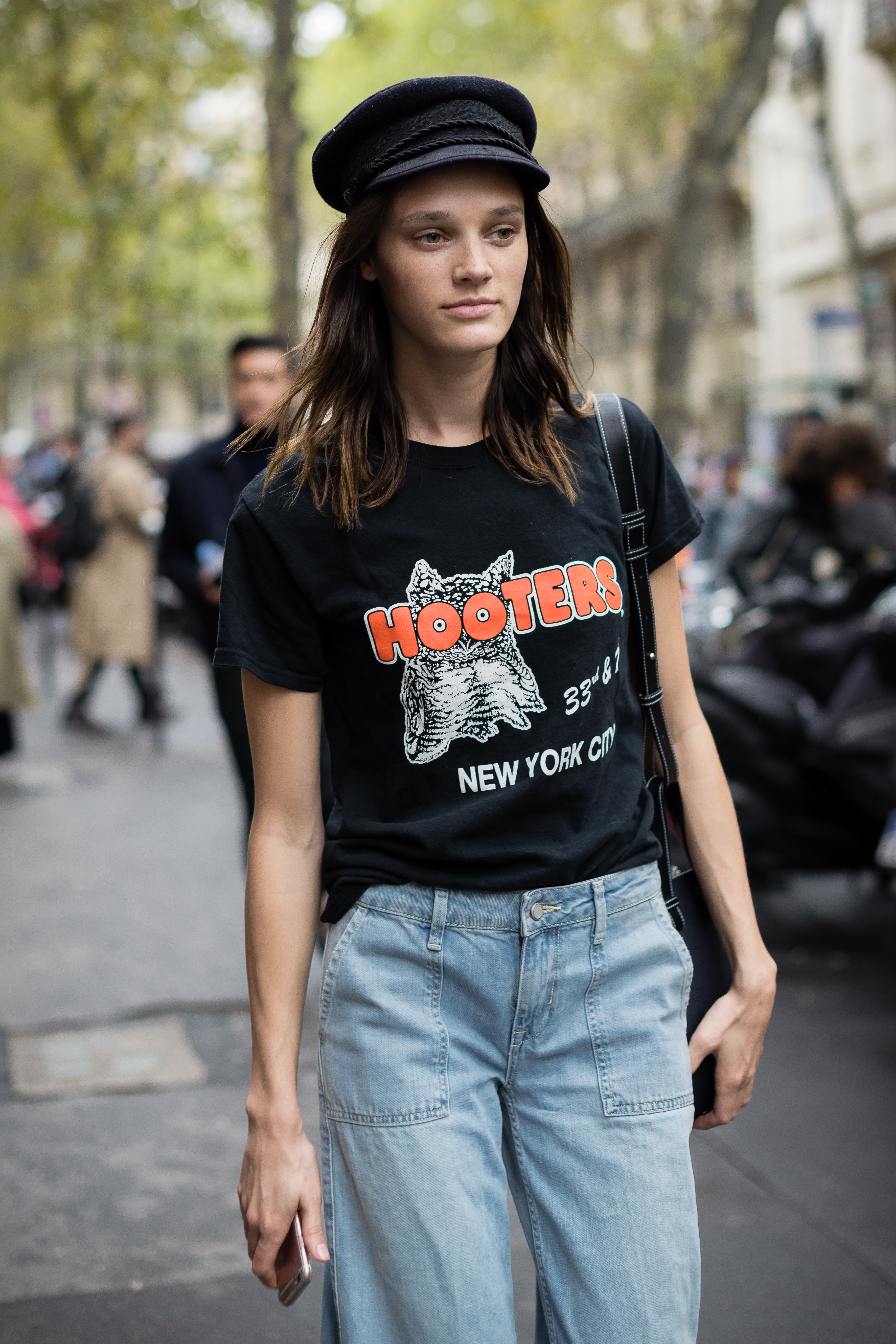 Leila Goldkuhl after the Chloe show during Paris fashion week spring summer 18